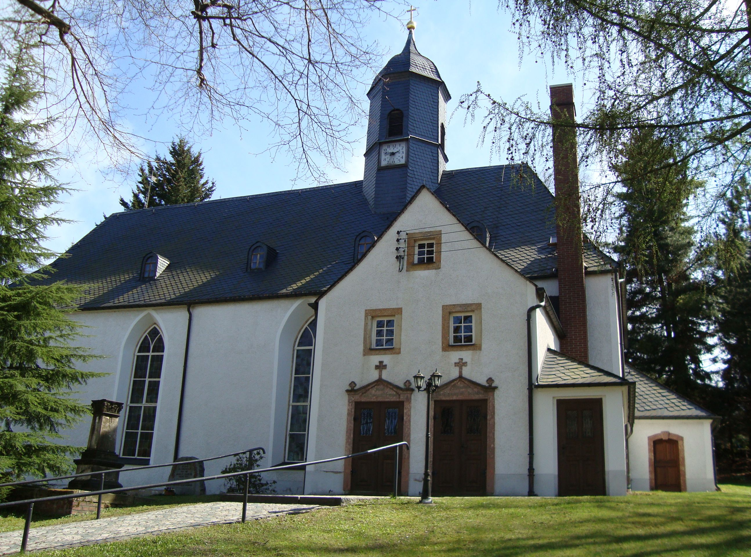 church of Jahnsdorf in Erzgebirge